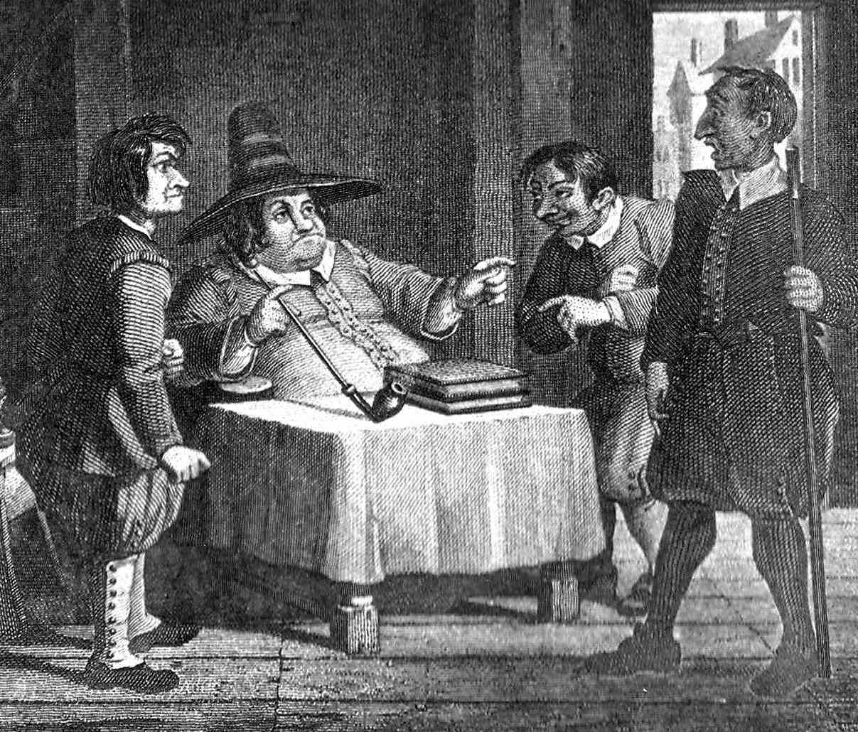 Painting of Wouter van Twiller